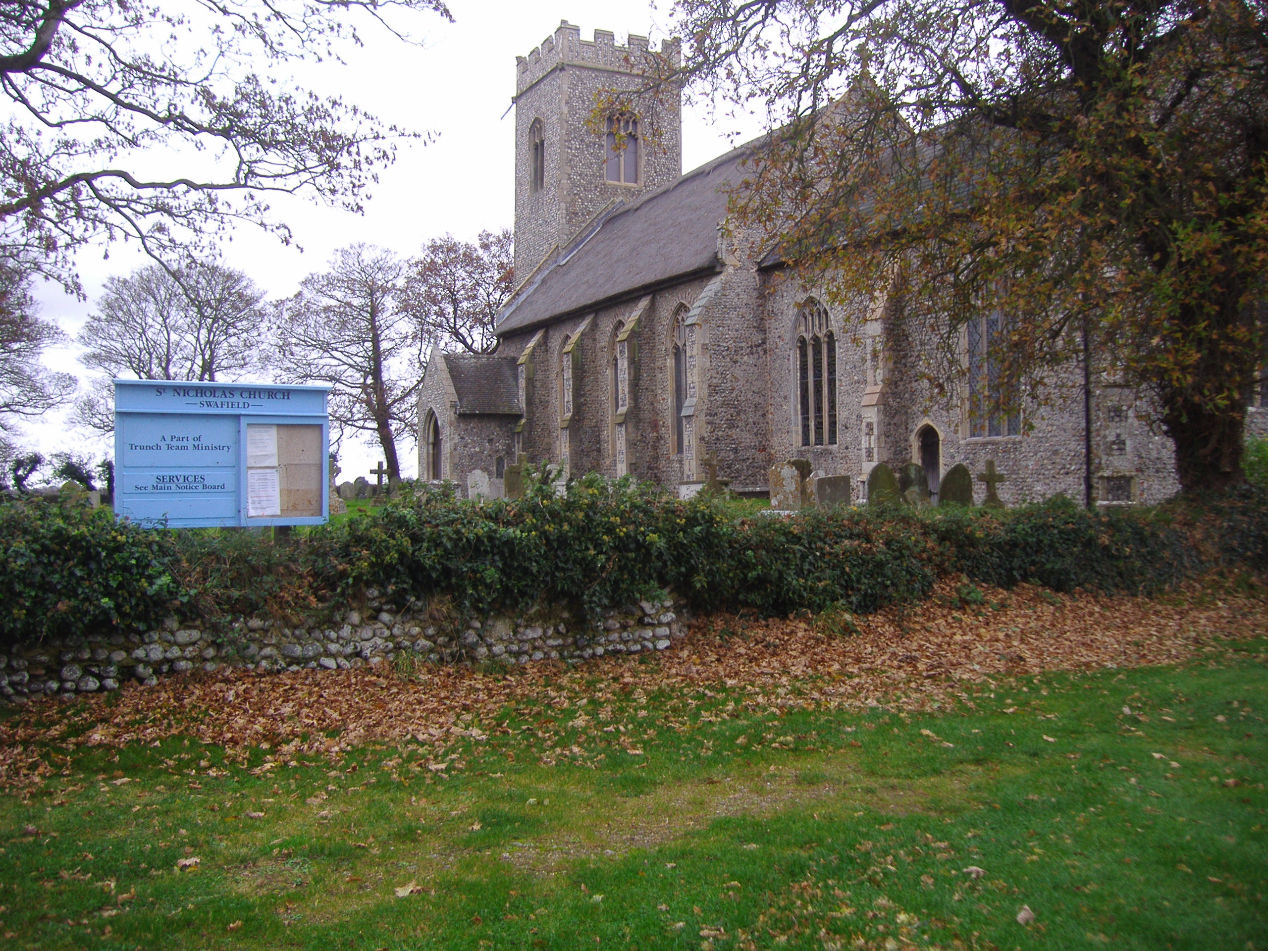 A Digital Photograph of Swafield parish church of St Nicholas in the county of Norfolk Taken by Stavros1 (talk) 22:17, 18 January 2008 (UTC)